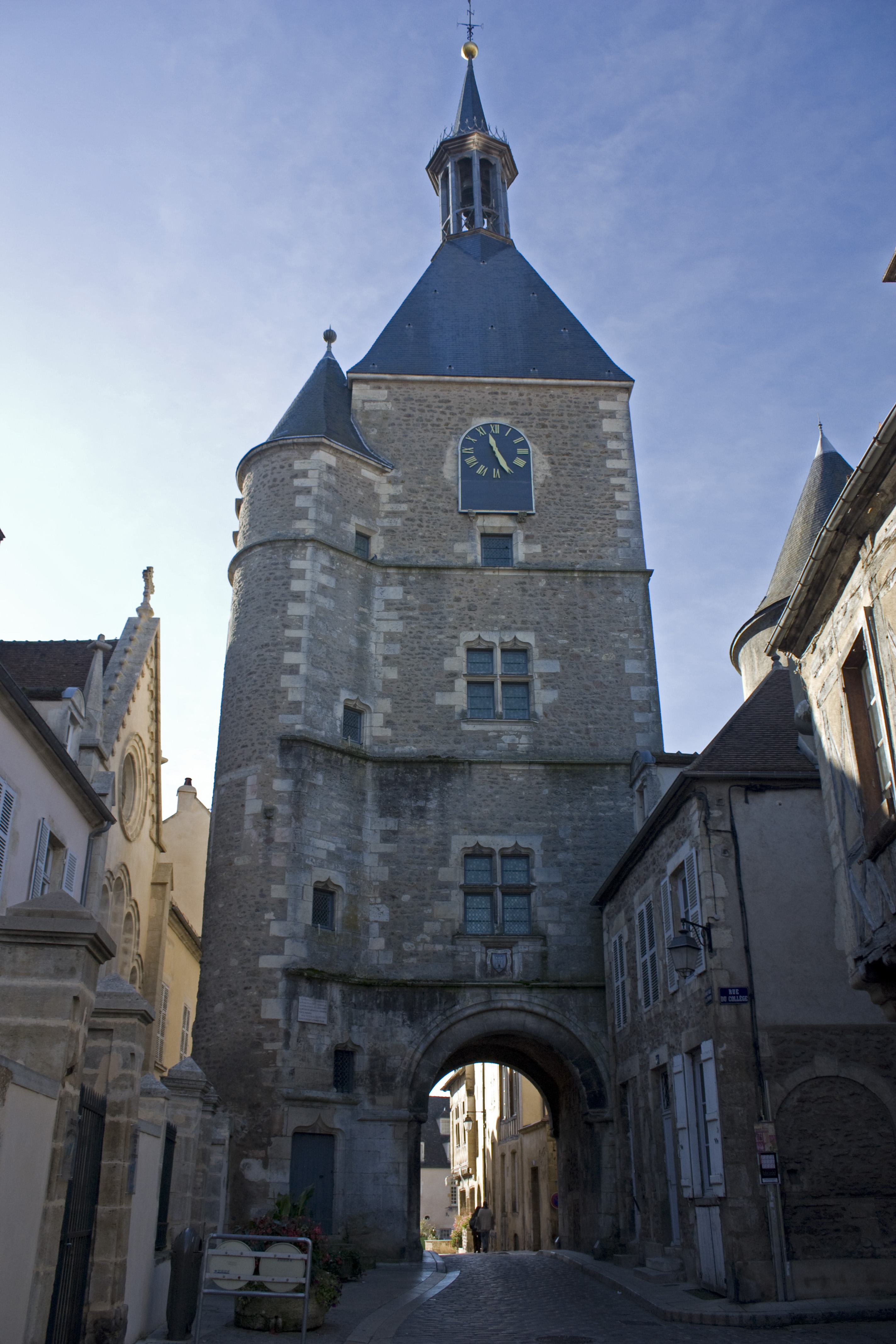 Clock Tower, third quarter of the 15th century.